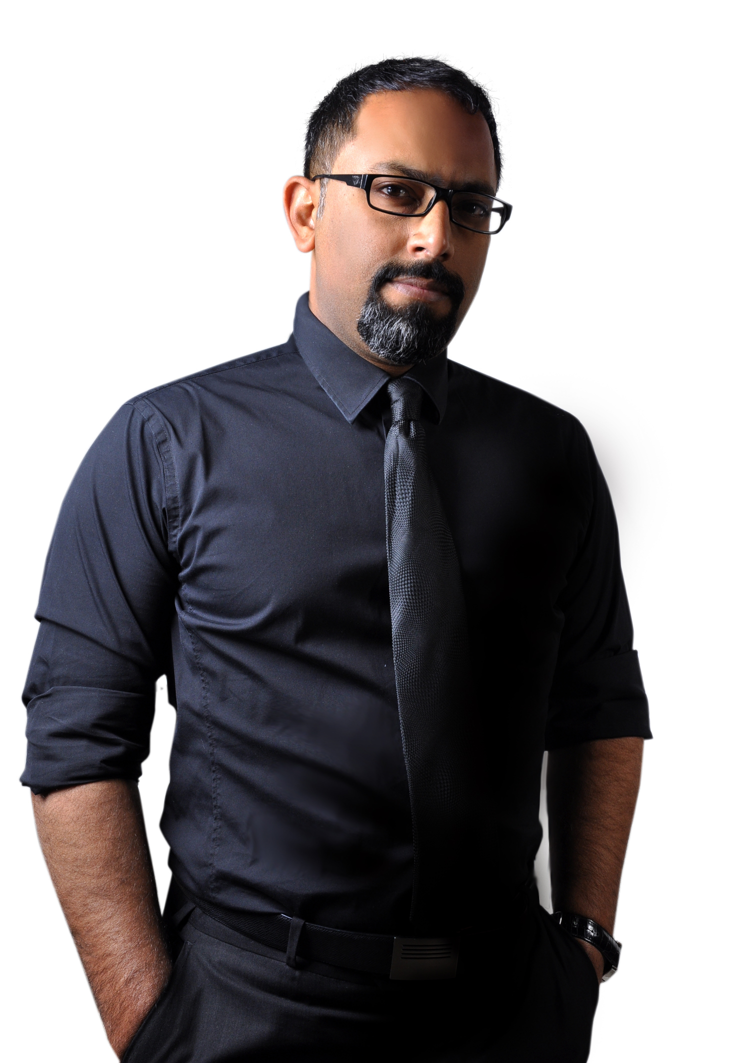 Asad Bunashi ( artist ) ( short films director )